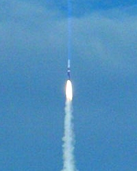 Launch of GOES North from Cape Canaveral on 24 May, 2006. Frame taken from the short movie at Image:goes_n_delta_launch.gif Photo by Bob Tubbs.